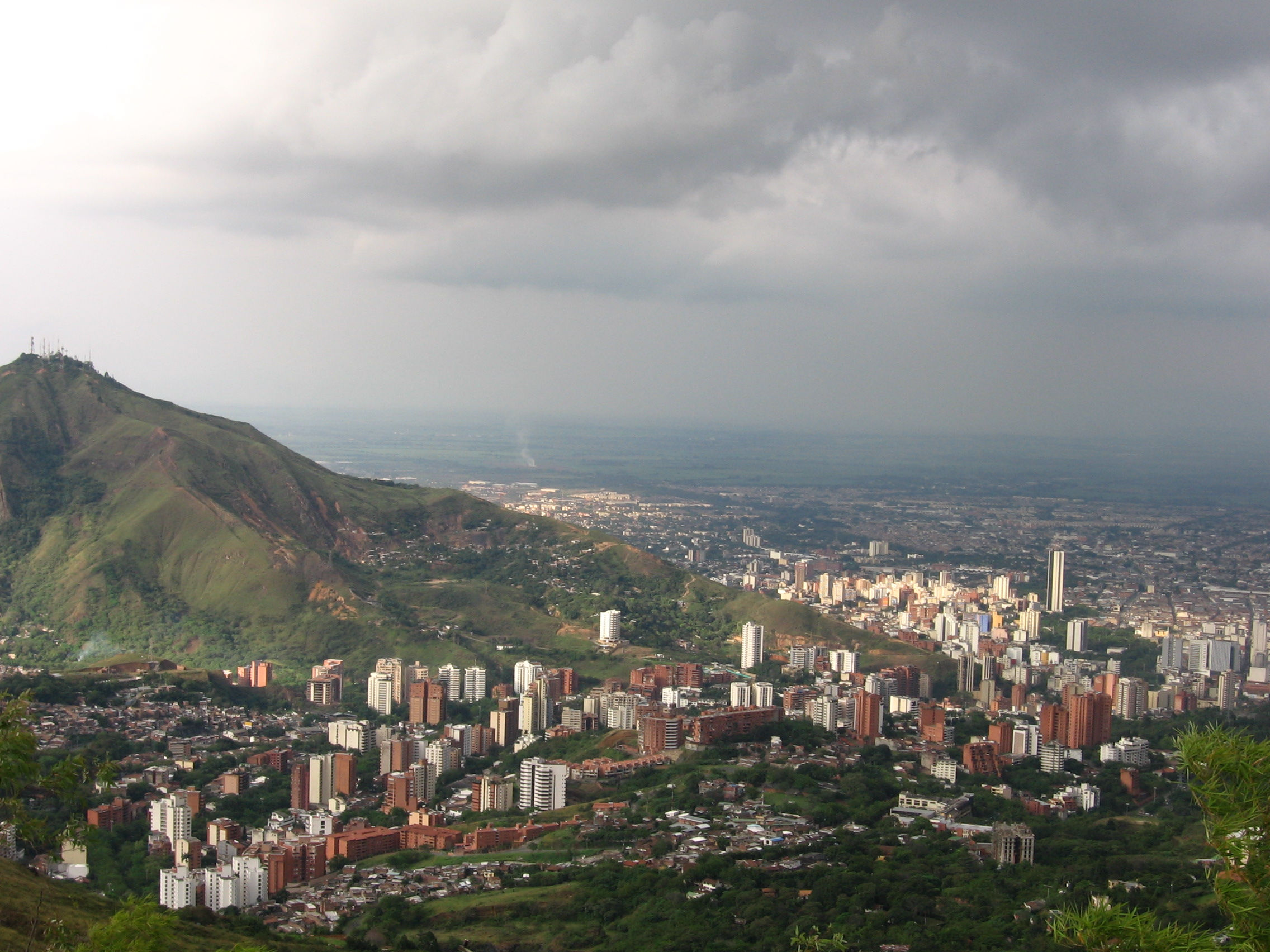 View on Cali, Colombia